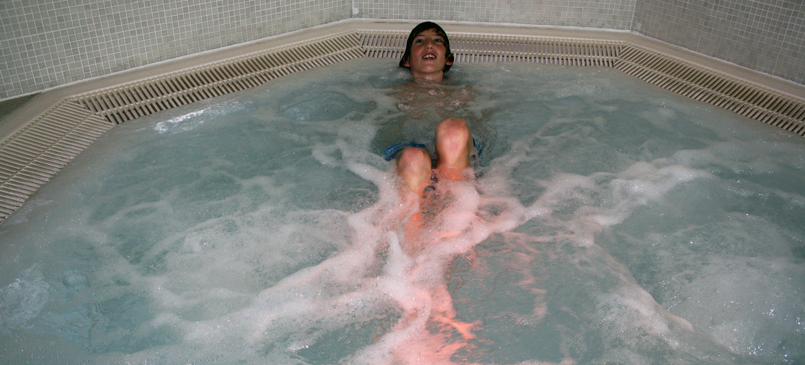 Whirlpool